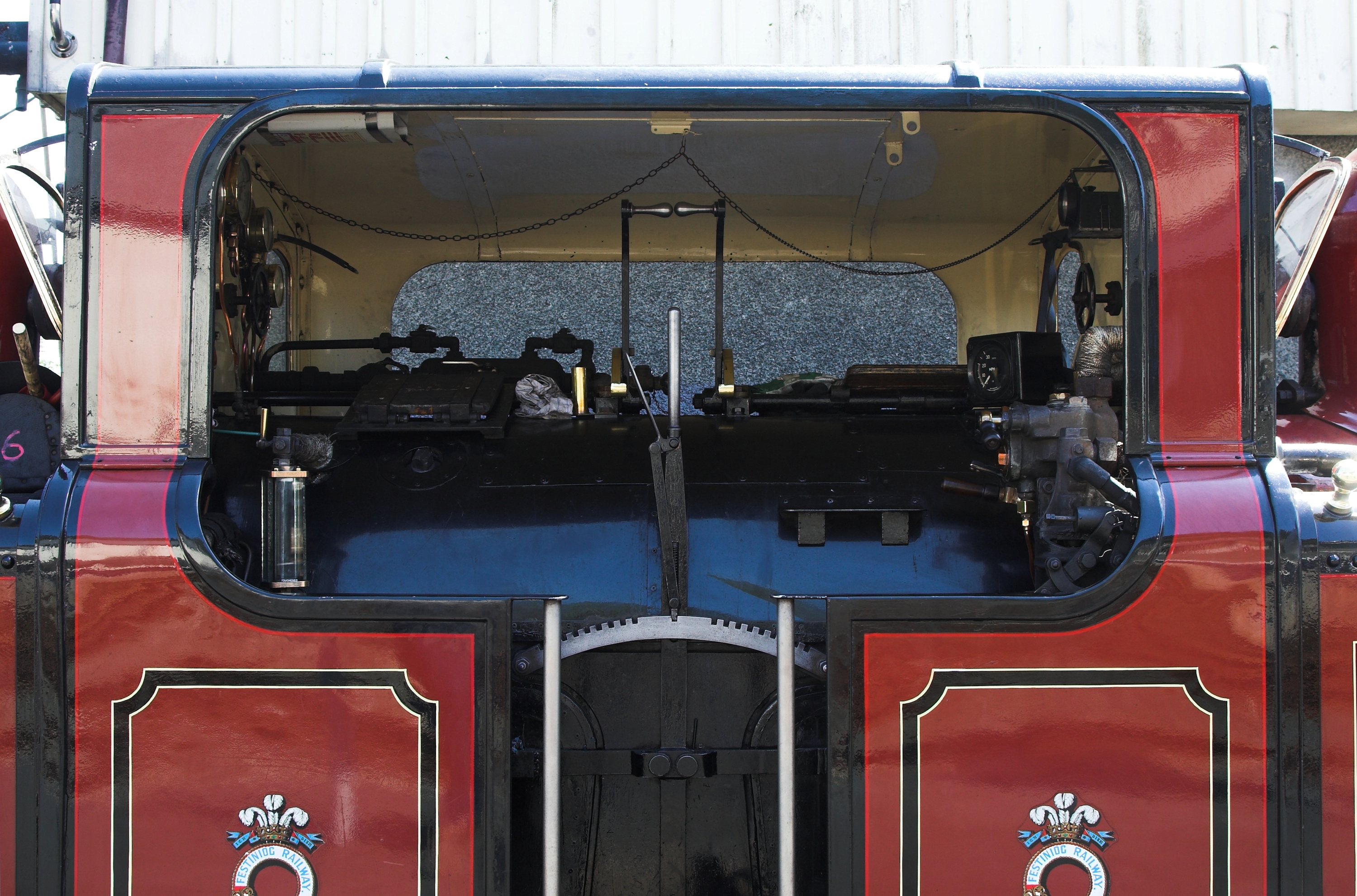 Double Fairlie David Lloyd George’s footplate, driver’s side. In the door the reversing lever can be seen, the regulators are mounted upon the outer firebox.